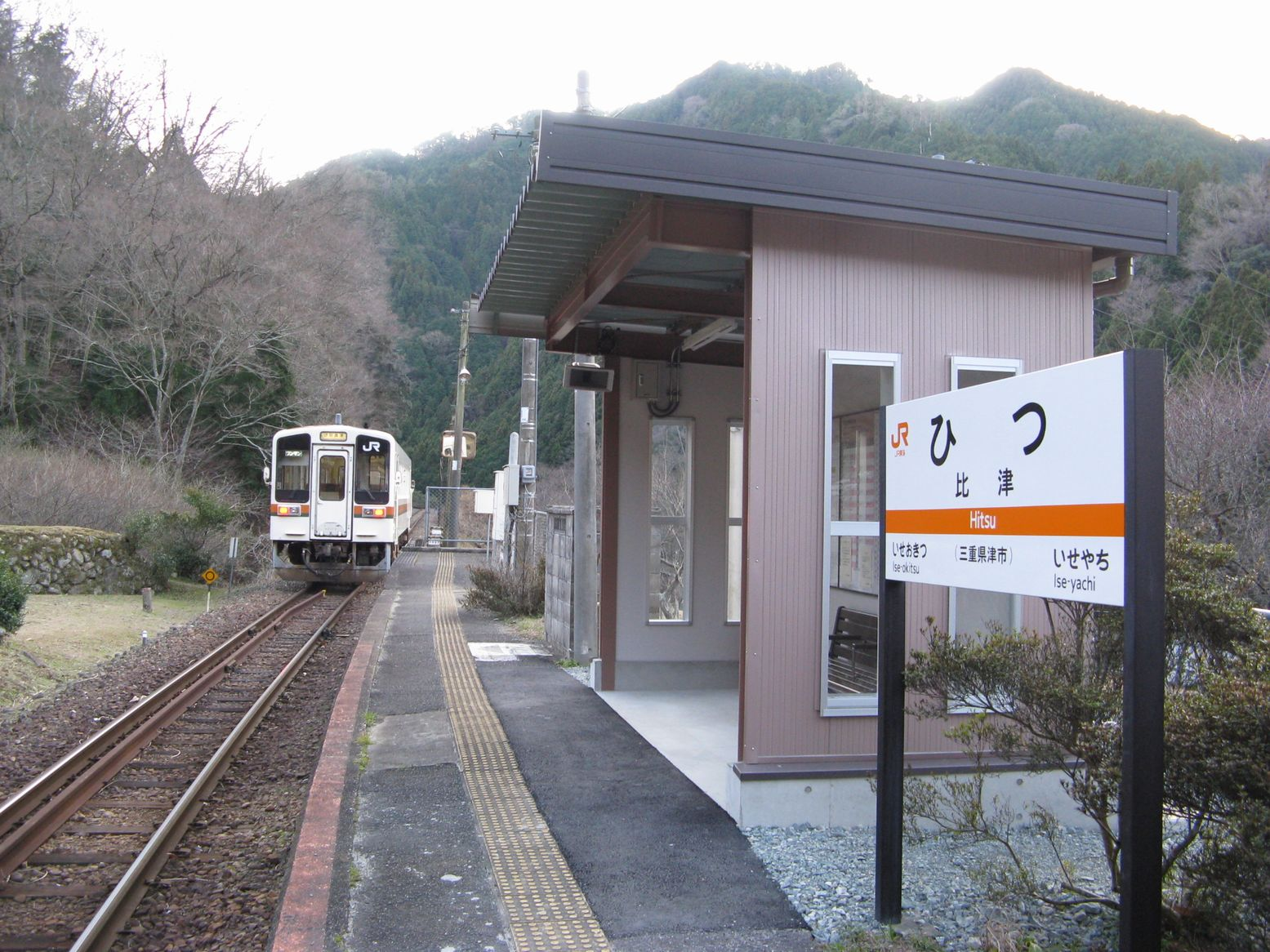 Hitsu